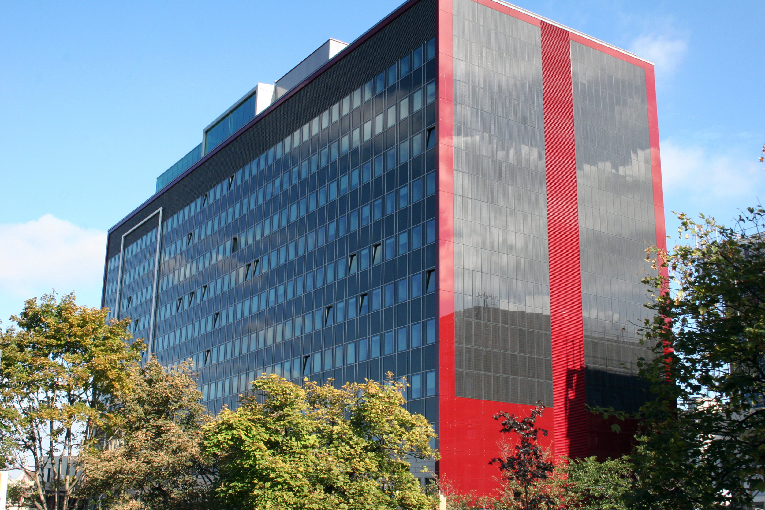 Aussenwirtschaft Austria (Foreign Trade Austria) in Vienna will host an ESO industry event for an Austrian business delegation at the Austrian Federal Economic Chamber (Wirtschaftskammer Österreich, WKO) in Vienna.